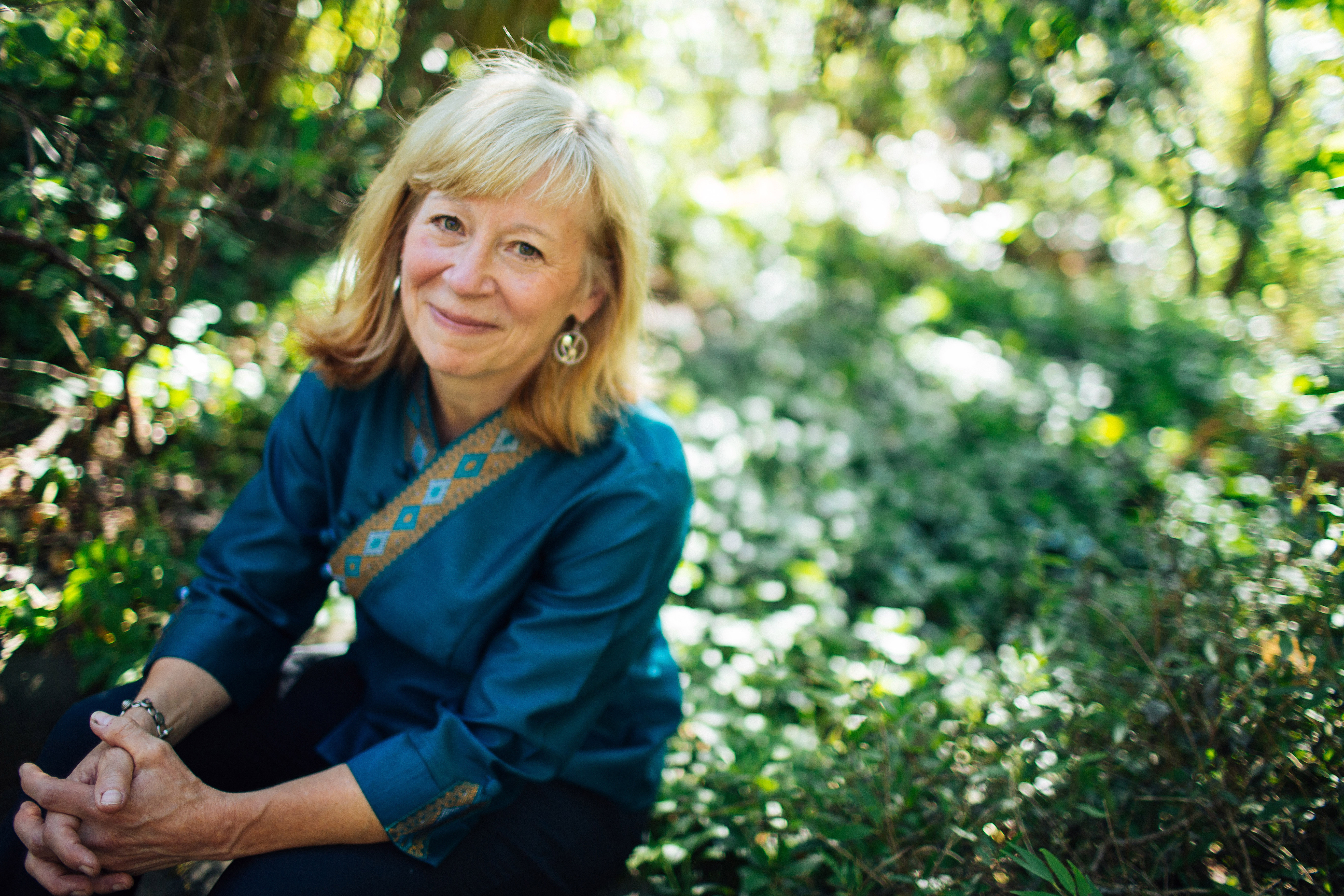 Geraldine (Geri) Richmond, a professor of chemistry at the University of Oregon, is being honored as the 2019 winner of the Linus Pauling Legacy Award sponsored by the Oregon State University Libraries and Press. Richmond is a Presidential Chair in Science at UO and a chemistry professor.